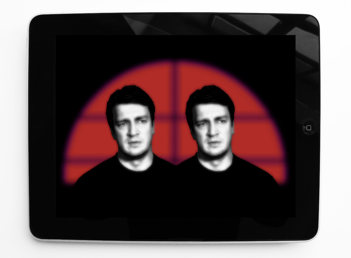 Screen capture from metascifi, a digital work of public art by Martin Firrell featuring life lessons from American television science fiction; Nathan Fillion on the wider significance of his character Capt Mal Raynolds from Joss Whedon's Firefly